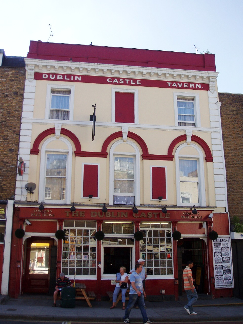 A great old pub, putting on live gigs for a long time now. Address: 94 Parkway (formerly Park Street). Former Name(s): The Dublin Castle Tavern. Owner: Conlon's (?); Watney Combe Reid (former). Links: Fancyapint Pubs Galore Beer in the Evening Dead Pubs (history)